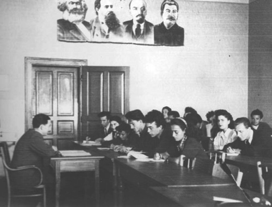 Universitatea Victor Babeş, Cluj. Ora de materialism dialectic cu prof. Pavel Apostol ("Victor Babeş University, Cluj. The Dialectical Materialism class, with Prof. Pavel Apostol").